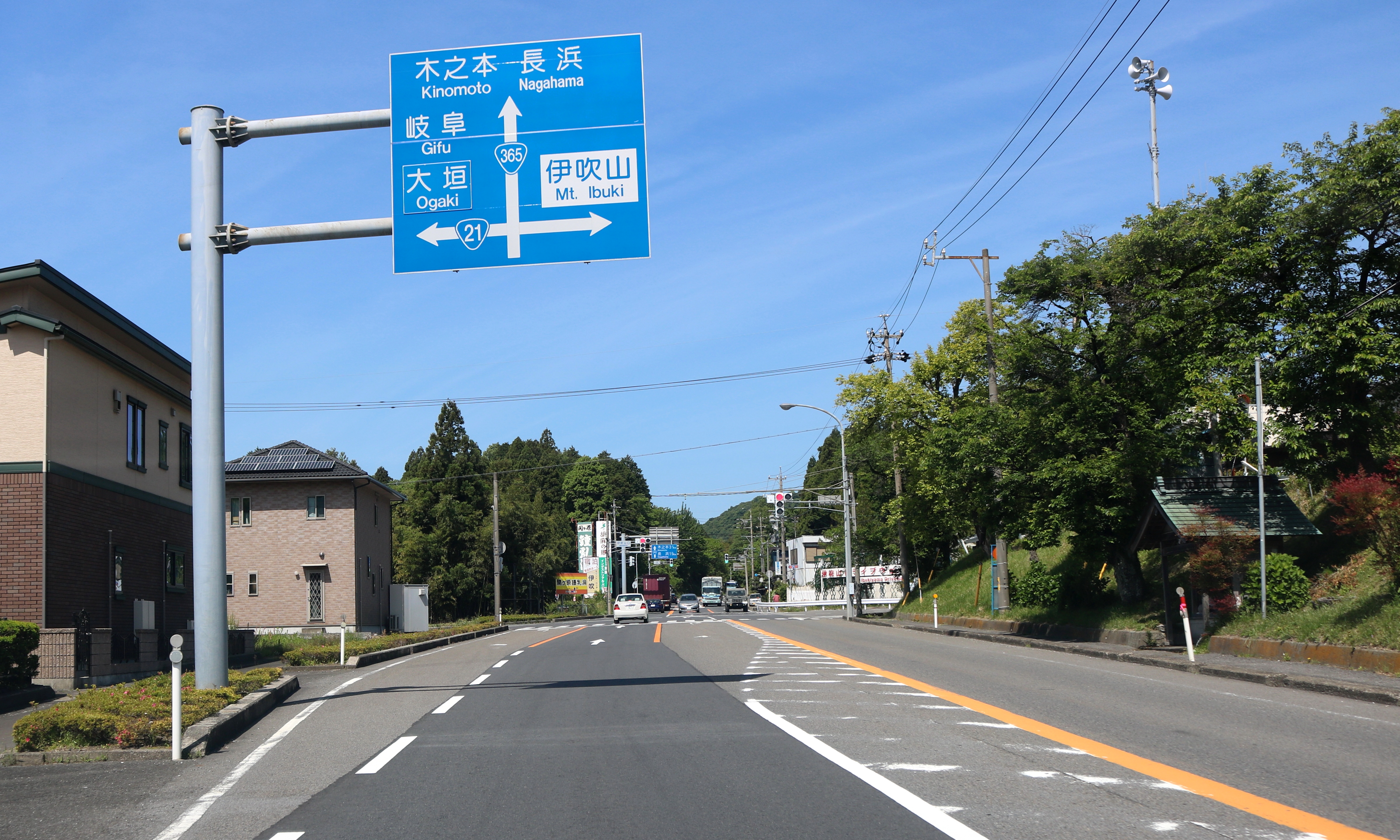 Route 365 and Route 21 Bypass in Sekigahara, Gifu Prefecure, Japan. Canon EOS Kiss X8i